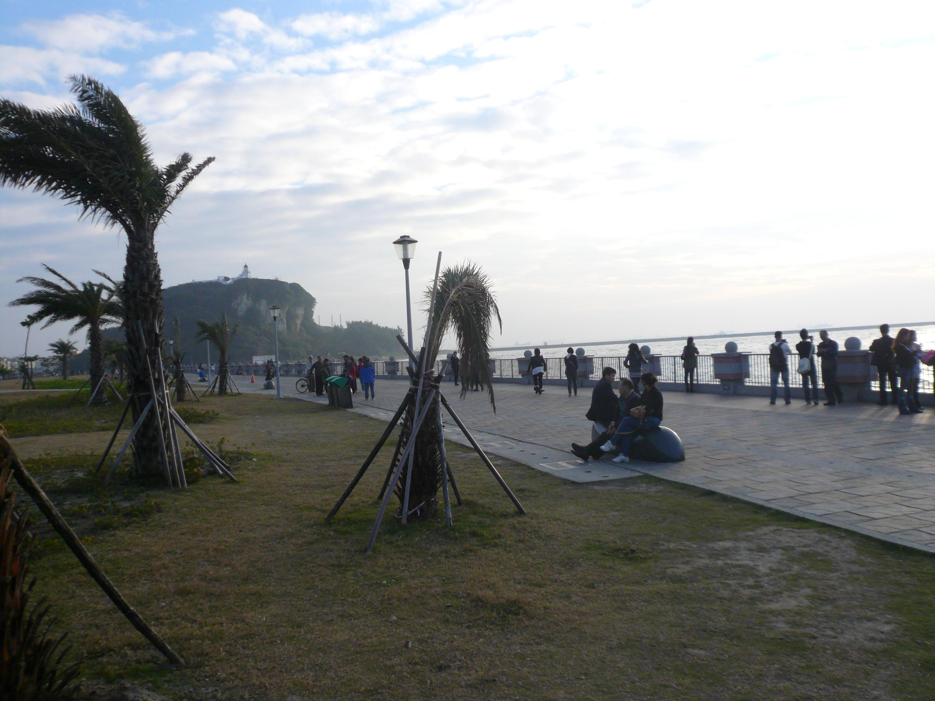 promenade at Sizihwan Bay, Kaohsiung, Taiwan